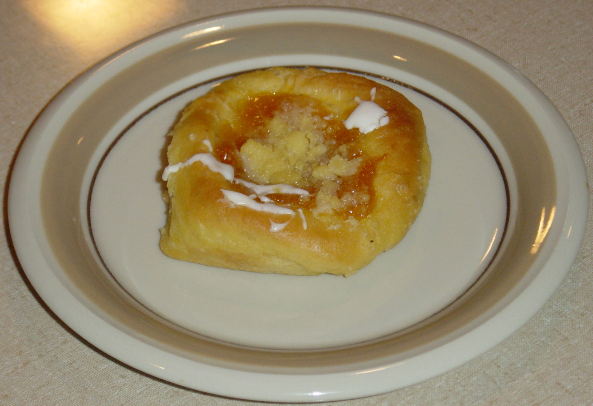 Kolache with apricot filling. Photo by uploader.